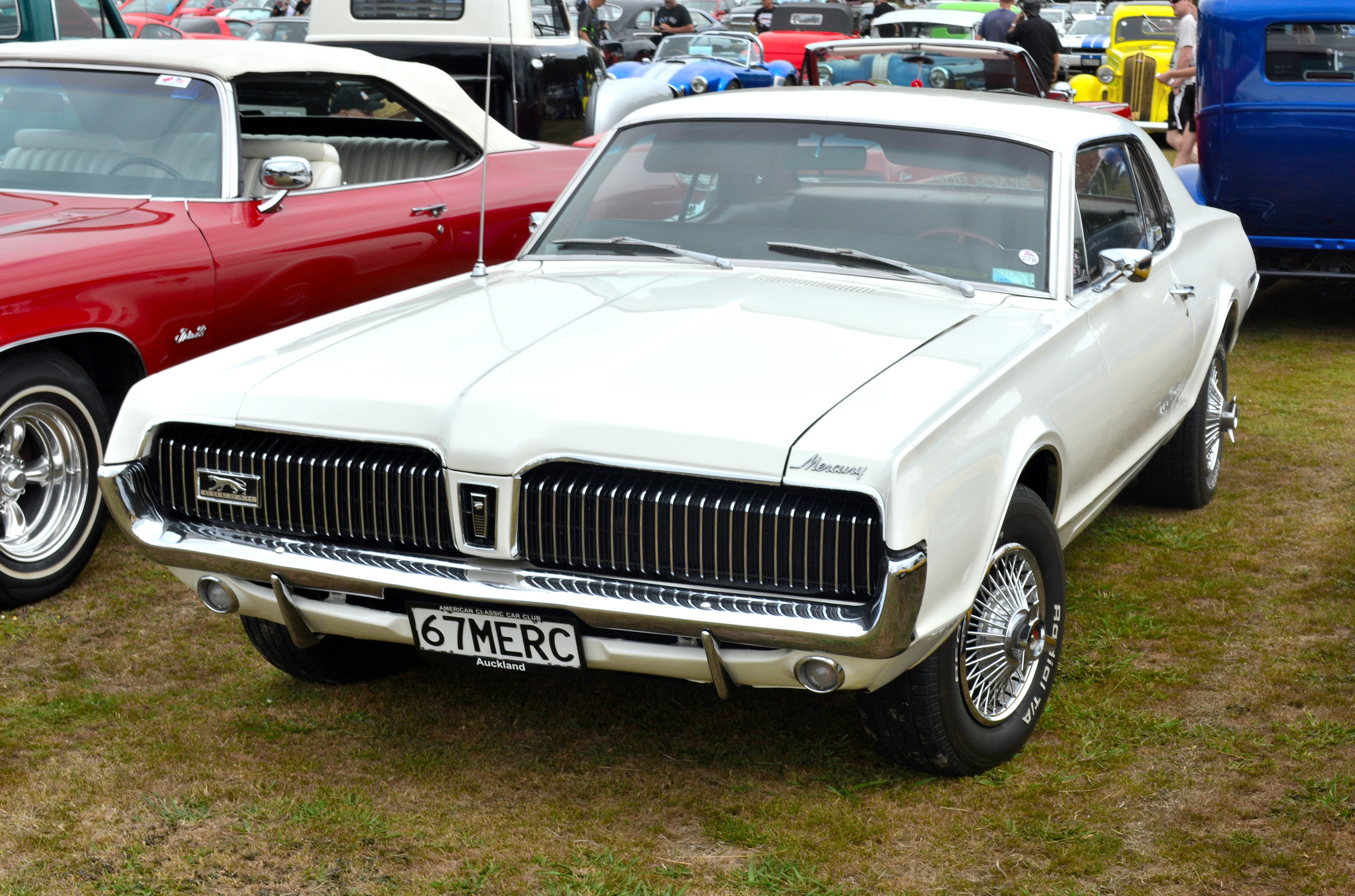 At Morrinsville 2017, New Zealand